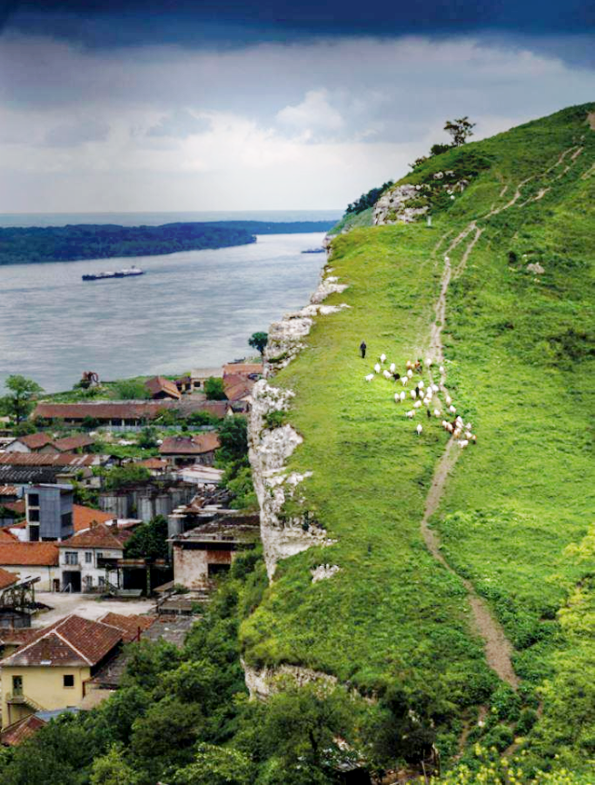 Panoramic view over Nikopol, northern Bulgaria. - Панорамен изглед от Нико̀пол.